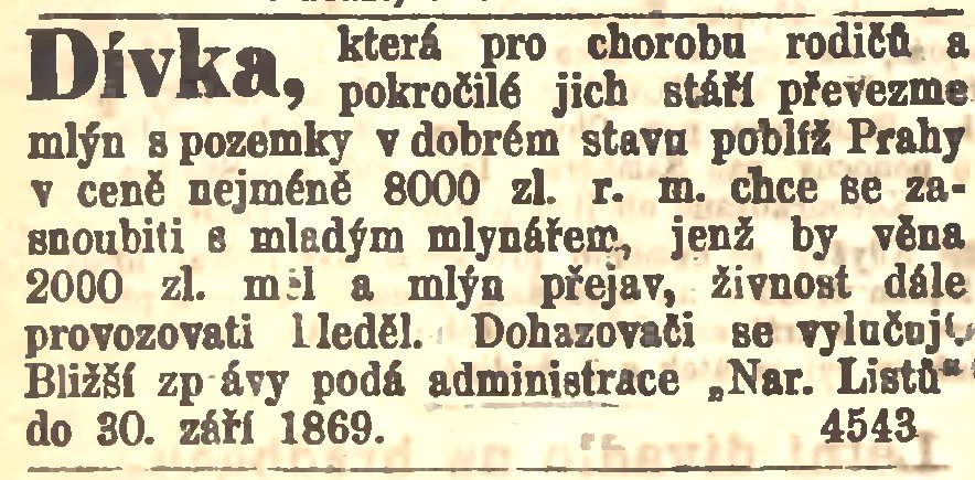 Personal classified advertisement. A daughter of an elderly mill owner looks for a young miller that can provide a dowry of 2000 Fl. and take over the family business.